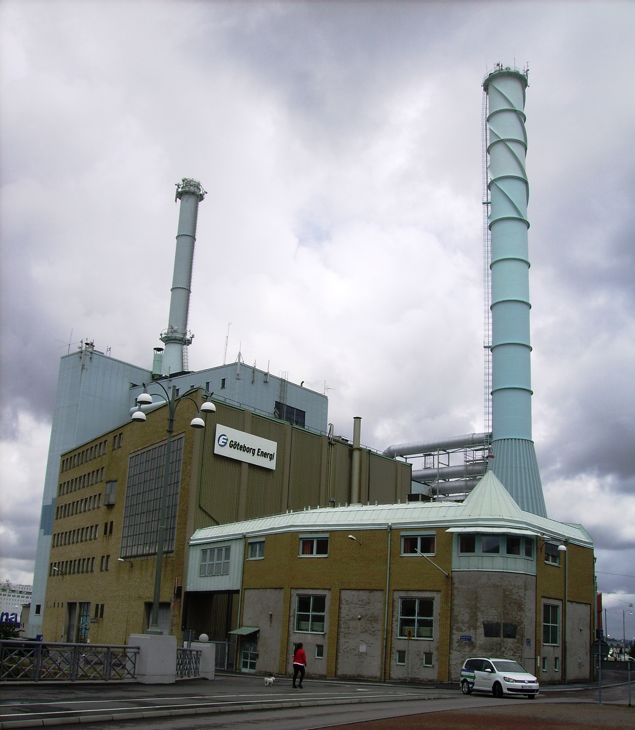 Picture of Göteborgs Energi's building at the harbour in Gothenburg.